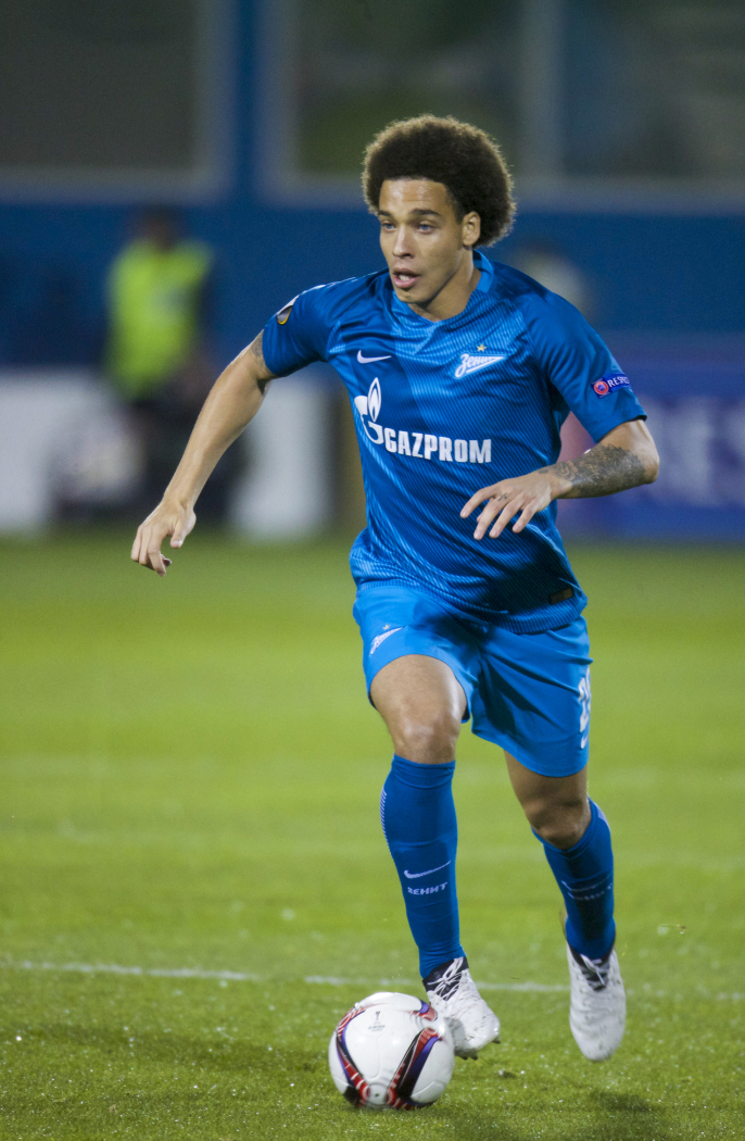 Axel Witsel